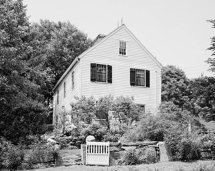 Samuel Knap House, Oxen Walk, 984 Stillwater Road, Stamford (Fairfield County, Connecticut).